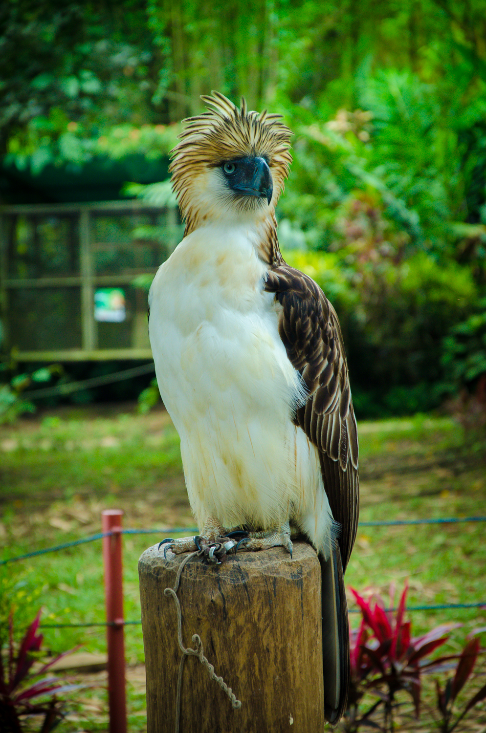 Philippine Eagle at Davao City Please feel free to use our photos but a link going to our website is required